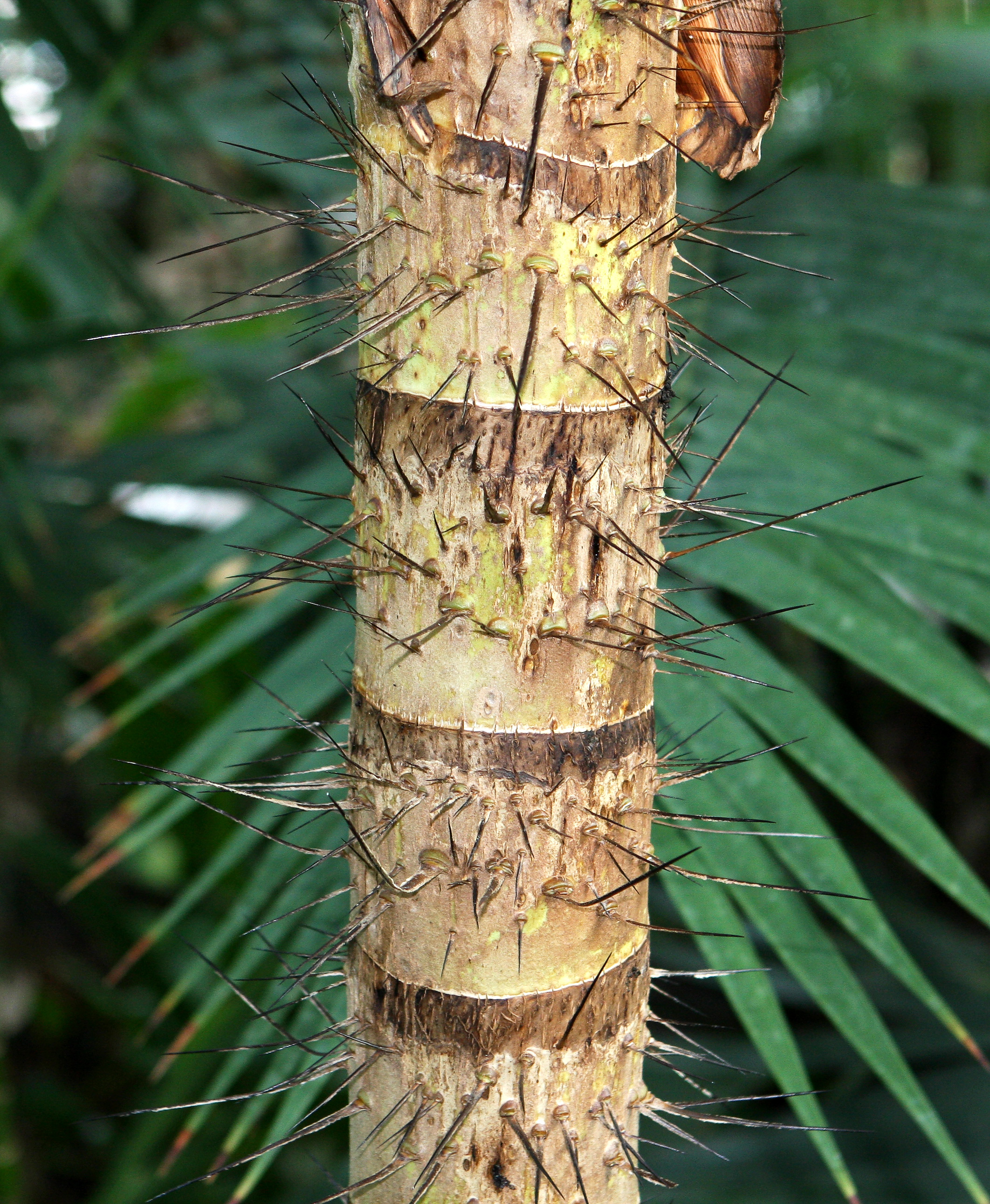 Self made image of Aiphanes_minima, grown under glass.